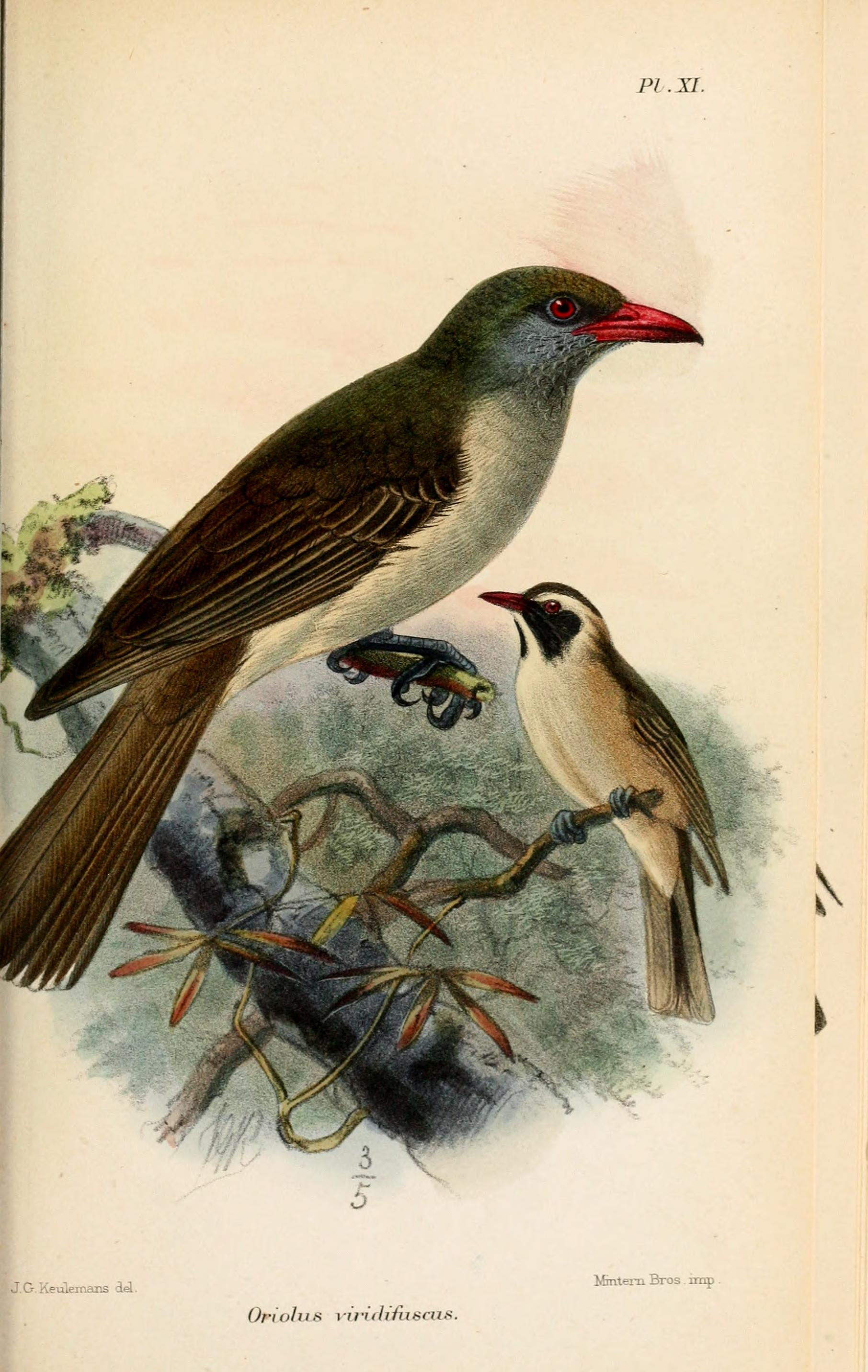 Oriolus viridifuscus = Oriolus melanotis viridifuscus, Olive-brown Oriole ssp., also known as the Timor Oriole